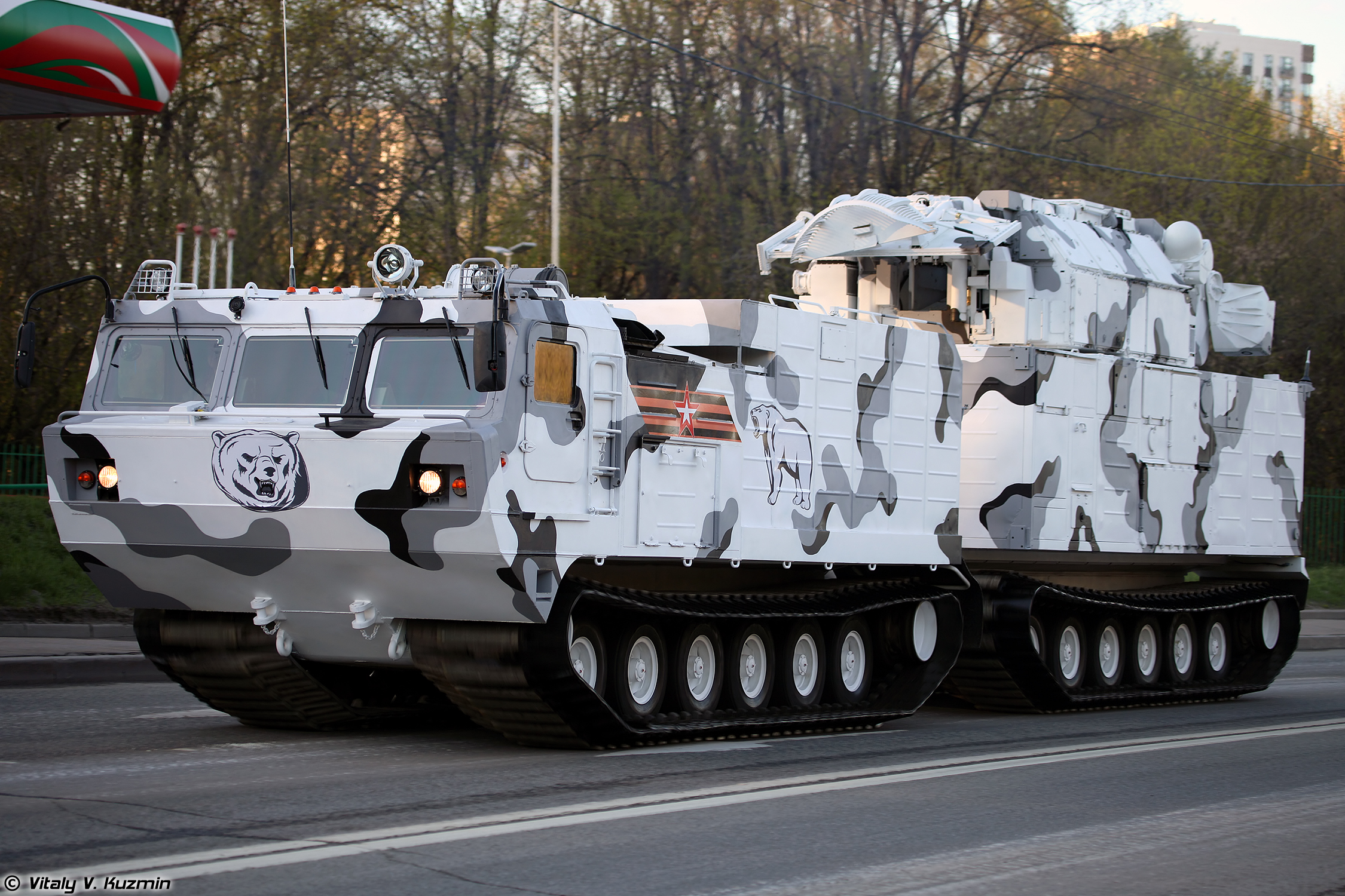 9K331MDT Tor-M2DT air defence system on DT-30PM transporter chassis - Rehearsal of 2017 Moscow Victory Day Parade